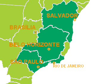 Cropped version of File:Rio de Janeiro bid map for the 2016 Summer Olympics - football preliminaries.PNG with dot in Rio de Janeiro.